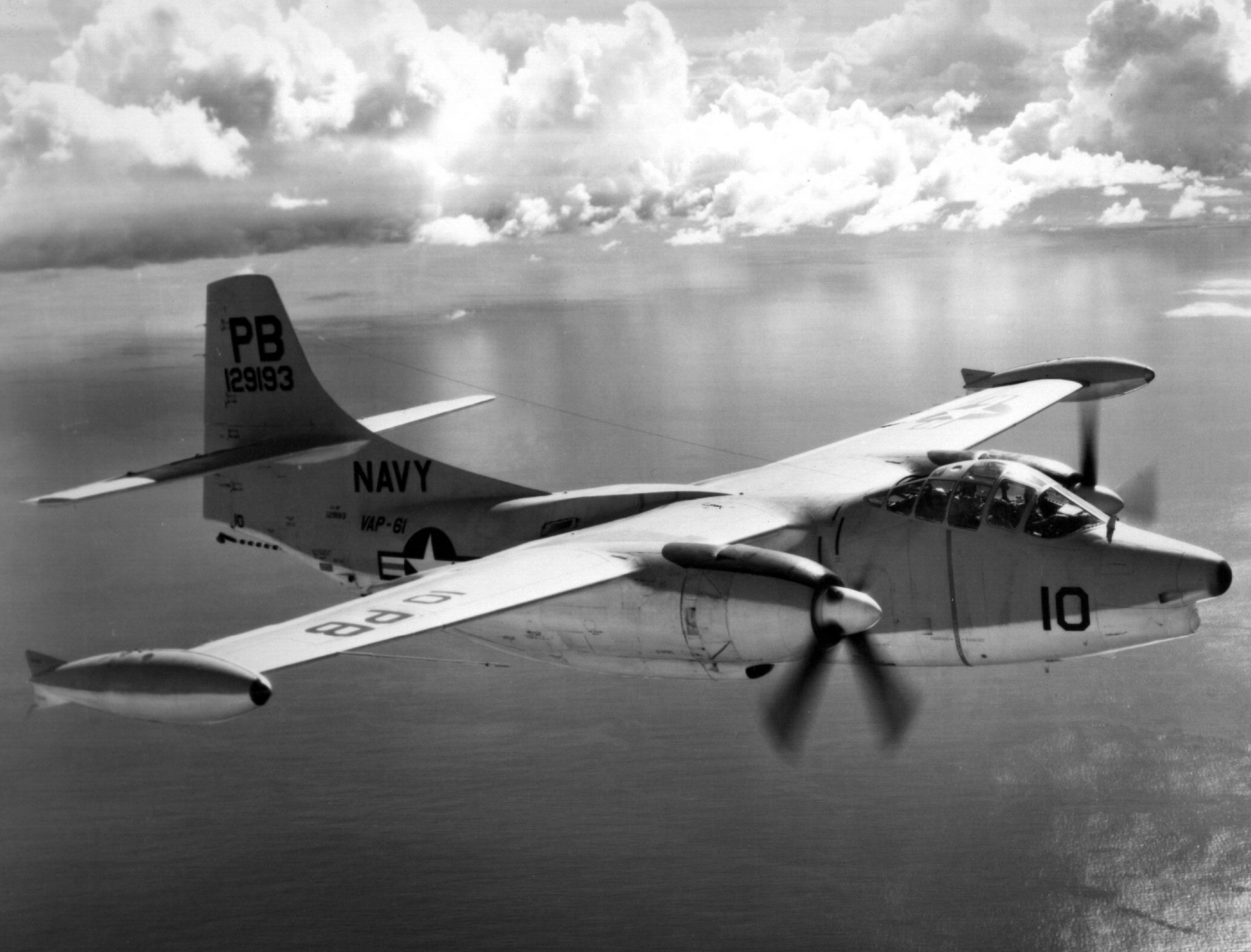 A U.S. Navy North American AJ-2P Savage (BuNo 129193) from Heavy Photographic Reconnaissance Squadron VAP-61 World Recorders in flight near Guam.